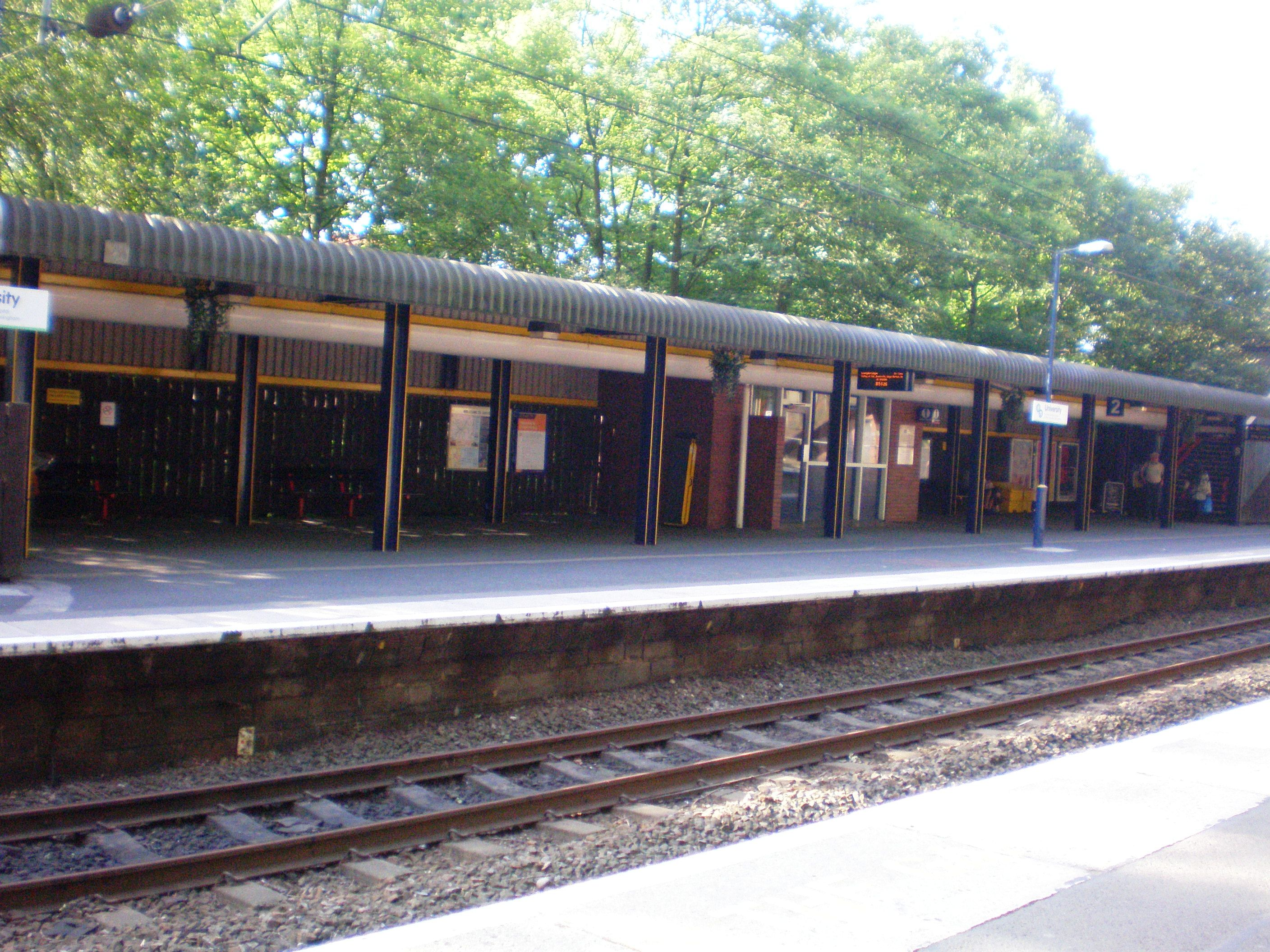 Birmigham University railway station